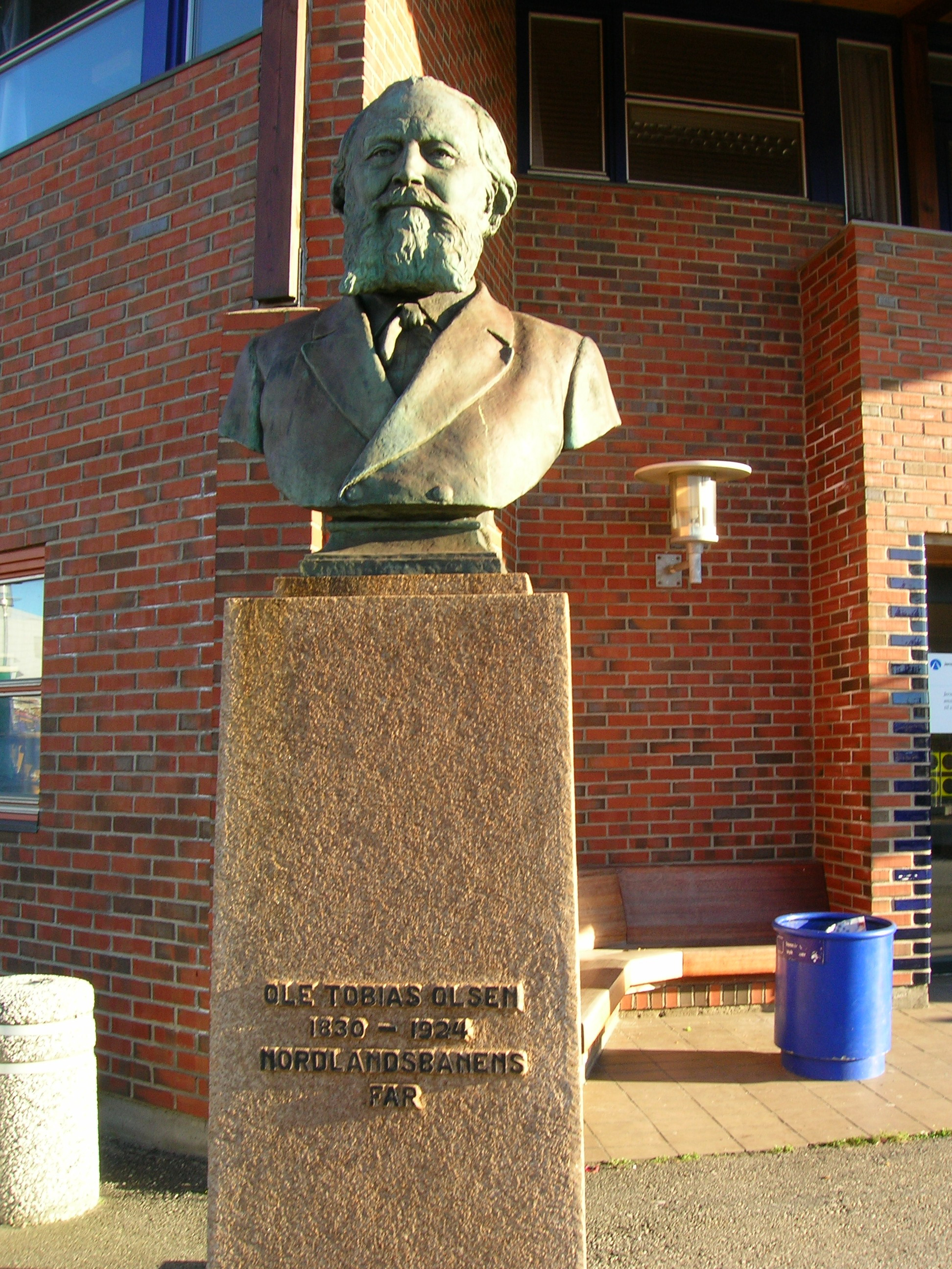 Mo i Rana railway station, Rana municipality, county of Nordland, Norway. Bust of Ole Tobias Olsen (1830-1924), «the father of the Nordland railway station», placed on the left of the entrance door where passengers are leaving the train in Mo i Rana as their destination, or entering the train for travelling northwards or southwards. Photo 28 September 2007 with a Nikon Coolpix 5600 5,1 Megapixel camera.